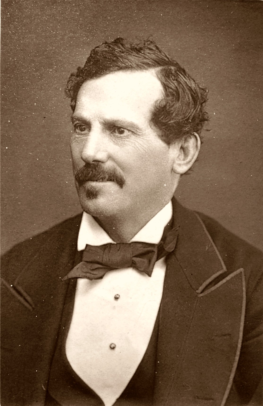 George Washington (Pony) Moore 1820-1909, New York born, english music-hall Impresario.